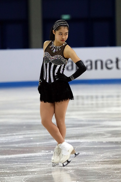 Photos – Junior World Championships 2018 – Ladies (Yuhana YOKOI JPN – 6th Place)